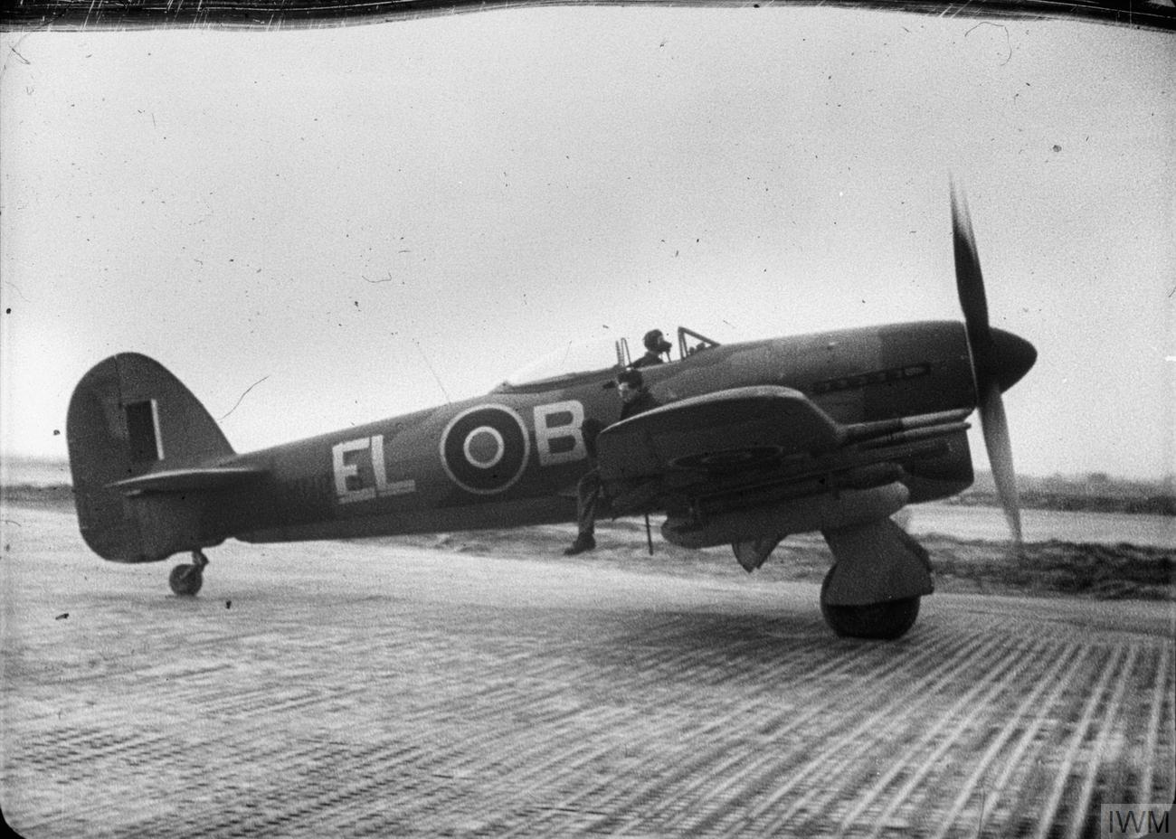 Hawker Typhoon Mark IB, MN875 'EL-B', No. 181 Squadron RAF, loaded with rocket projectiles and overload fuel tanks, taxying at B86/ Helmond, Holland. A member of the ground crew can be seen sliding off the starboard wing after guiding the pilot to the main runway.